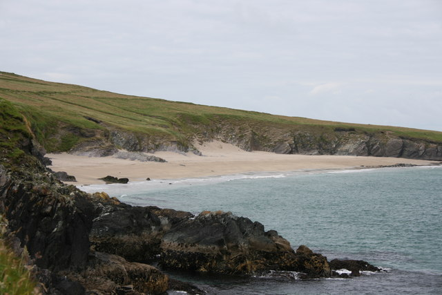 An Trá Bán, Great Blasket Island. An Trá Bán ( irish/Gaelic for " The White Strand") on the largest Island of the Blasket group, taken from just above the small island harbour.